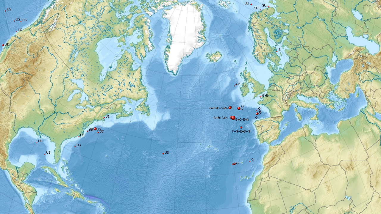 BE=Belgium (2,120TBq), FR=France (354TBq), DE=Germany (0.2TBq), IT=Italy (0.2TBq), NL=Netherlands (336TBq), SE=Sweden (3.2TBq), CH=Switzerland (4,419TBq), GB=UK (35,088TBq), US=USA (2,942TBq), SU=USSR. Source=IAEA_tecdoc_1105